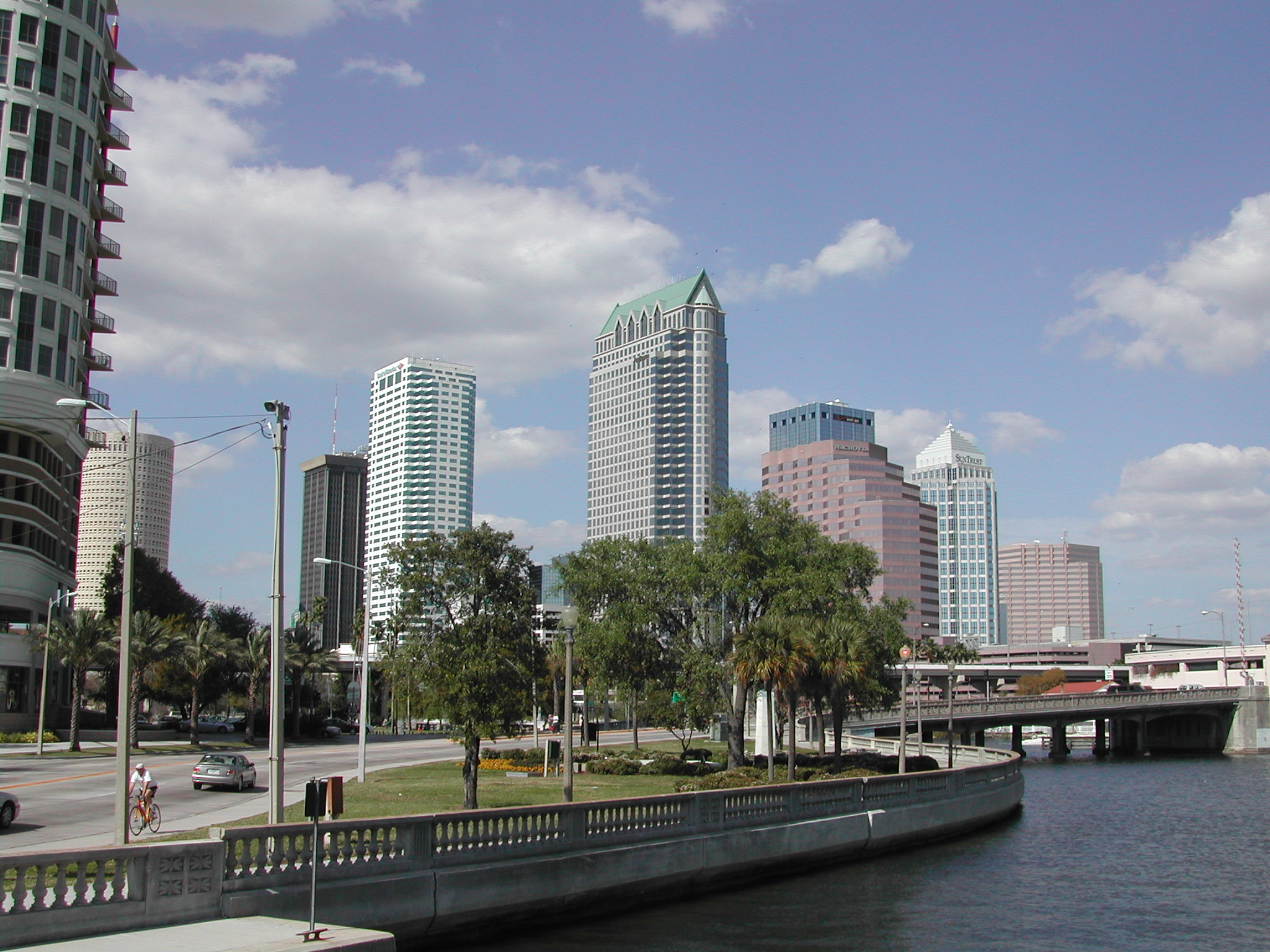 Skyline of Tampa, Florida